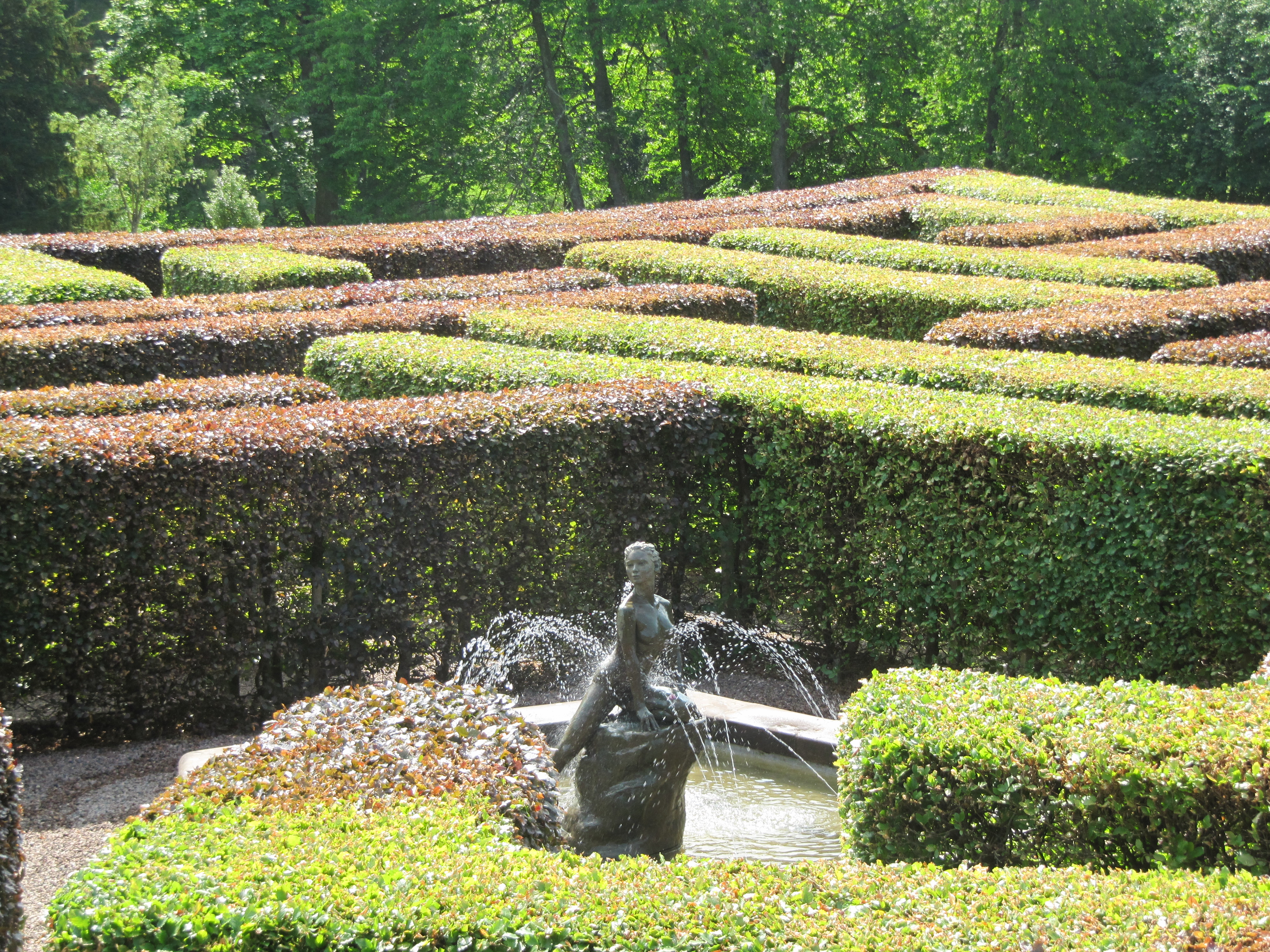 Scone Palace Grounds, The Murray Star Maze